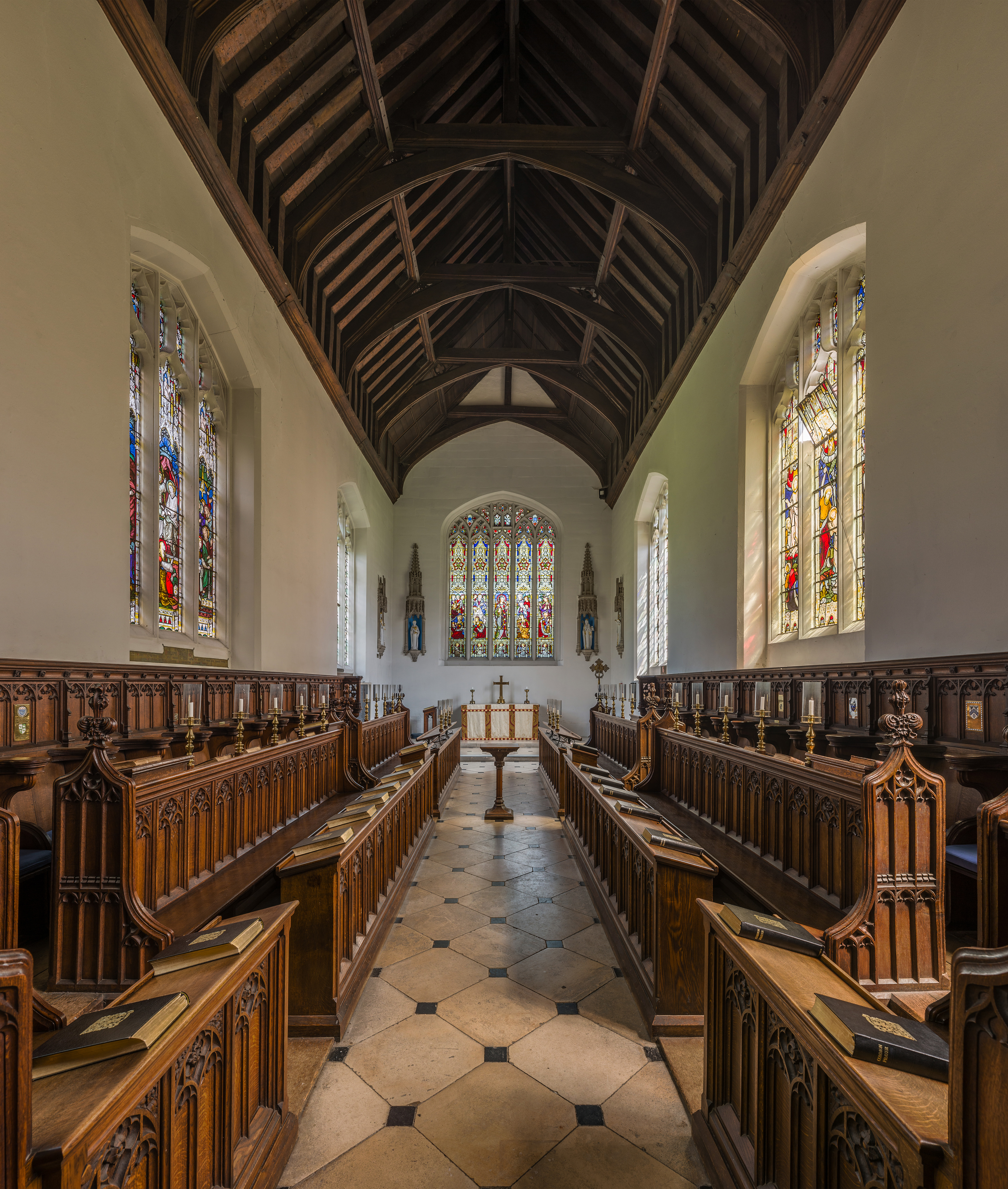 The chapel of Magdalene College in Cambridge, England.